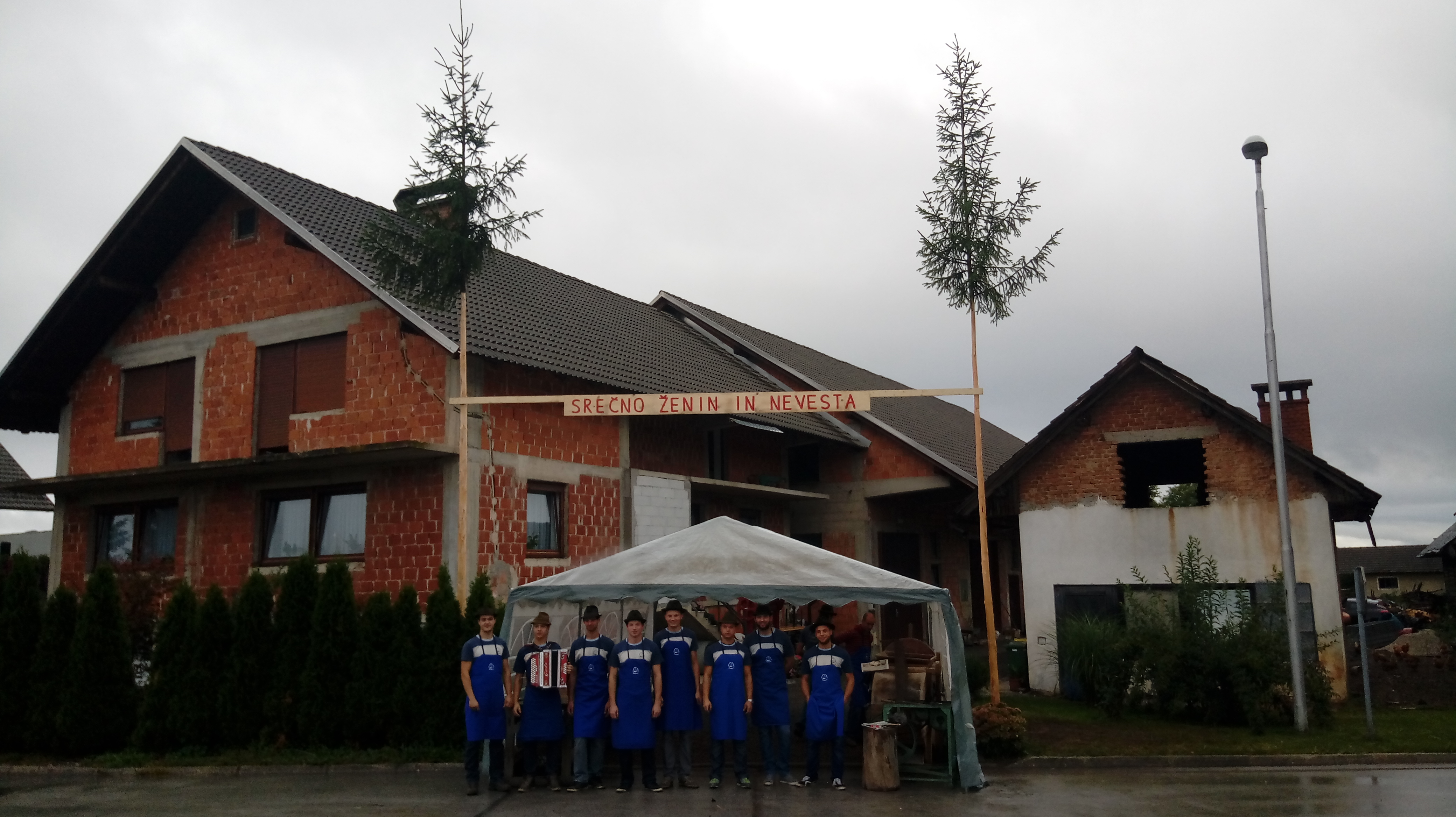 Slovenija, Žabnica, wedding, Šranga postavljena za nevesto: Barbi Kalan - Km'tlcova (po domače), Šrangarji: (L-D: Primož (Tončkov), Uroš (Tomažev), Matej (Vrbančkov), Luka (Brojanov), Matjaž (Jergov), Aljaž, Domen (Vrbančkov)